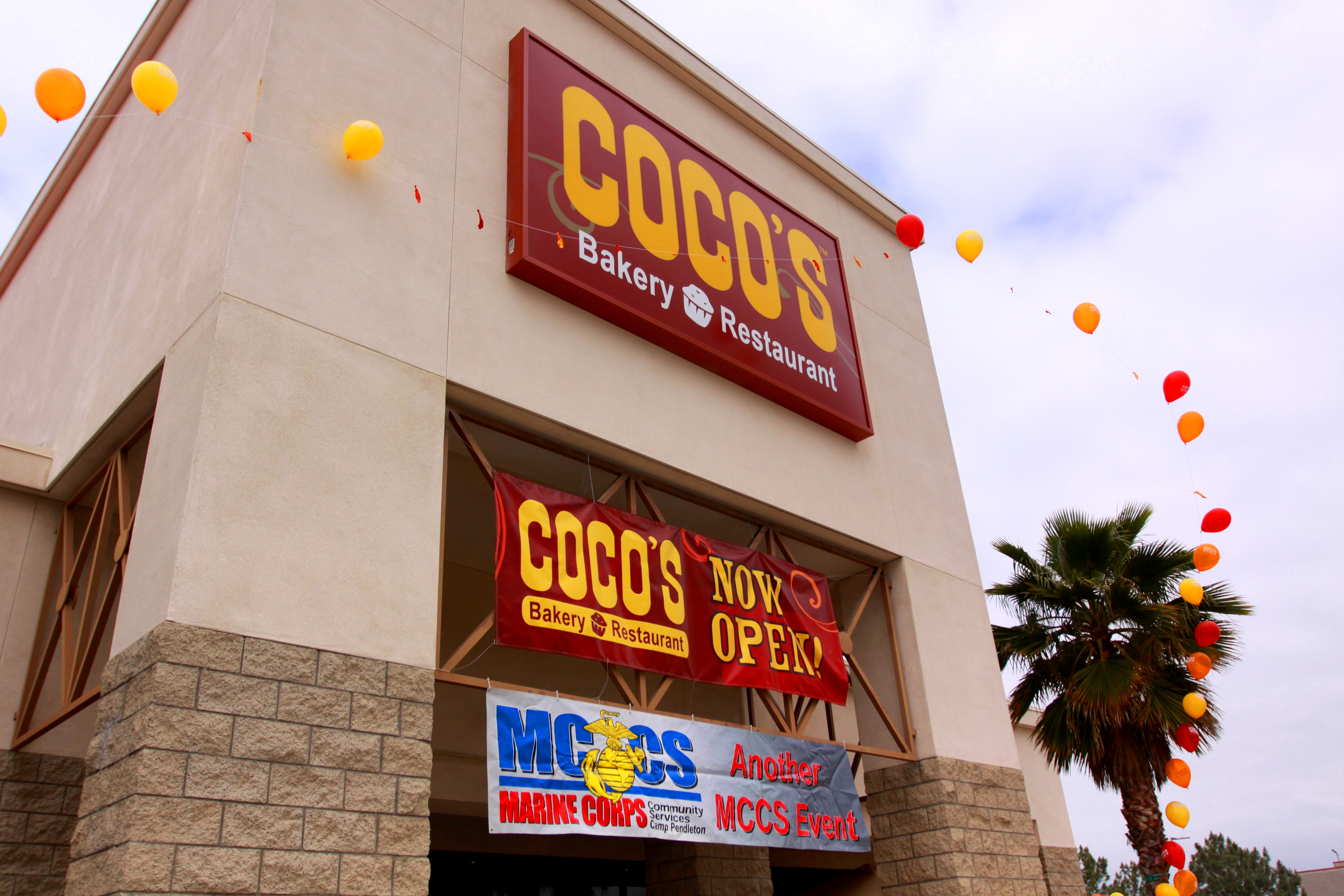 Camp Pendleton officially opened Coco's Bakery Restaurant at Pacific Plaza, with a ribbon cutting ceremony, April 16. This is Department of Defense's first sit-down eatery, said Samantha Grant, Junger-Godfrey Public Relations. The 4500-square-foot restaurant seats up to 150 patrons and is open seven days a week from 6 a.m. to 11 p.m. The family restaurant took less than three months to build with only six months of planning.